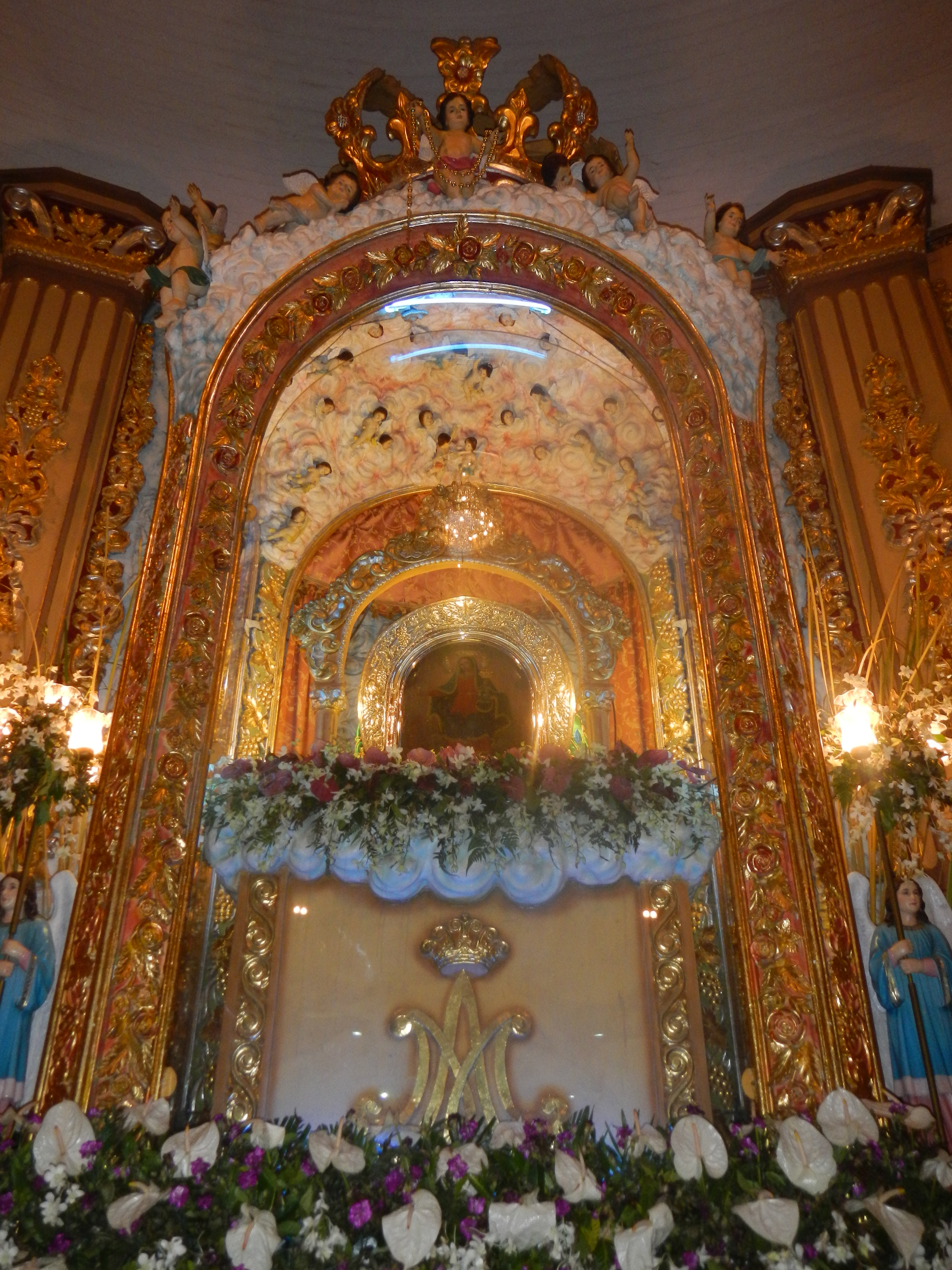 1845 Nuestra Señora Virgen del Santissimo Rosario, Reina de Caracol[1] or "Parish of the Most Holy Rosary" or "The Most Holy Rosary Parish" was conscerated on May 1, 2005 (El Pueblo Amante de Maria) (Our Lady of the Most Holy Rosary, Queen of the Caracol) also called "La Reina de Caracol" or "Mahal na Birhen ng Santo Rosaryo" is the patroness of Rosario "Salinas", Cavite,[2]Philippines. The Blessed Virgin Mary is depicted as Our Lady of the Most Holy Rosary.[3] ---Parish Priest - Fr. Gilberto Delima Urubio October 22, 1845 - Scout Torillo St., Poblacion, 4106 Rosario, CaviteWebsite -- It belongs to the Roman Catholic Diocese of ImusVicariate of The Holy Cross, Vicar Forane: Rev Fr. Calixto C. Lumandas, Parish Priest and Vicarial Representative: Rev Fr. Gilberto D. Urubio.[4] Patron Saint: Nuestra Señora del PilarHistory Pope Francis names Boac Bishop Reynaldo Evangelista new Imus bishop, his first appointment in PHL [5] Currently there are 47 parishes, 9 quasi parishes and 4 pastoral centers in the diocese of Imus. [6] -------- ---------[N.B. Photography of Rosario, Cavite[7]: 30% cloudy and 70% sunny weather using my Nikon AW 100 waterproof shockproof camera. From Bulacan at 9:35 a.m., I took photo of the Baliuag Transit Original station, and at 11:38 a.m., the 5th Avenue LRT Station[8]; then I arrived at Rosario, Cavite and captured Noveleta Battle bridge at 2:08 pm, and then the Salinas Town or Rosario, Cavite at 2:33 pm and finished photography at 7:04 pm, and arrived at Bulacan at 11:30 pm after 4+ hours of travel by bus, and started uploading via slow internet at 11:40 pm - I hereby certify that these raw, original and unedited photos are exclusive for Commons and Wikipedia never uploaded in any Internet or any site, and for the public domain without any condition.]